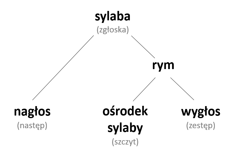 Syllable structure in Polish